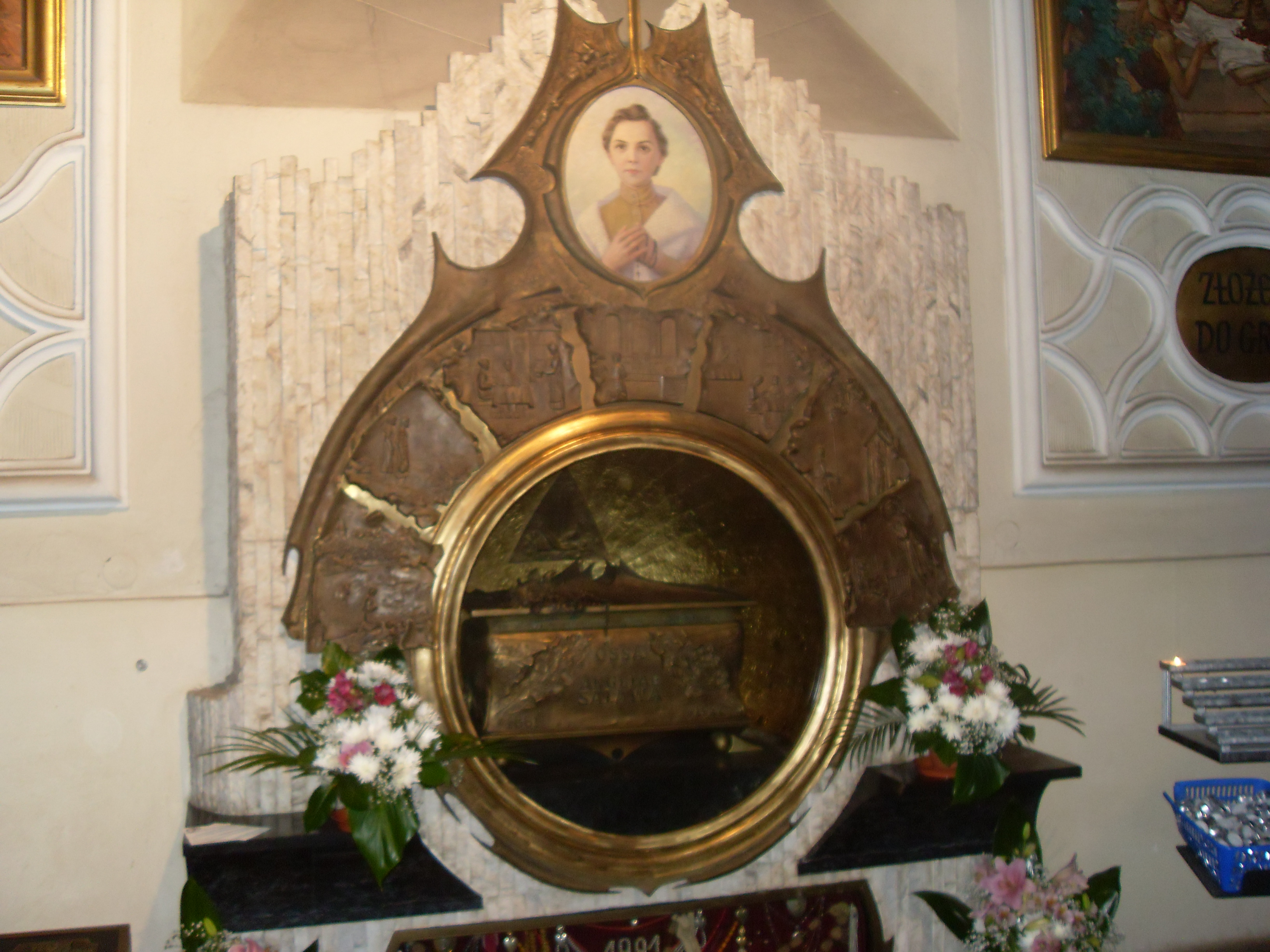 The tomb of Aniela Salawa (1881-1922) in the Franciscan church in Krakow